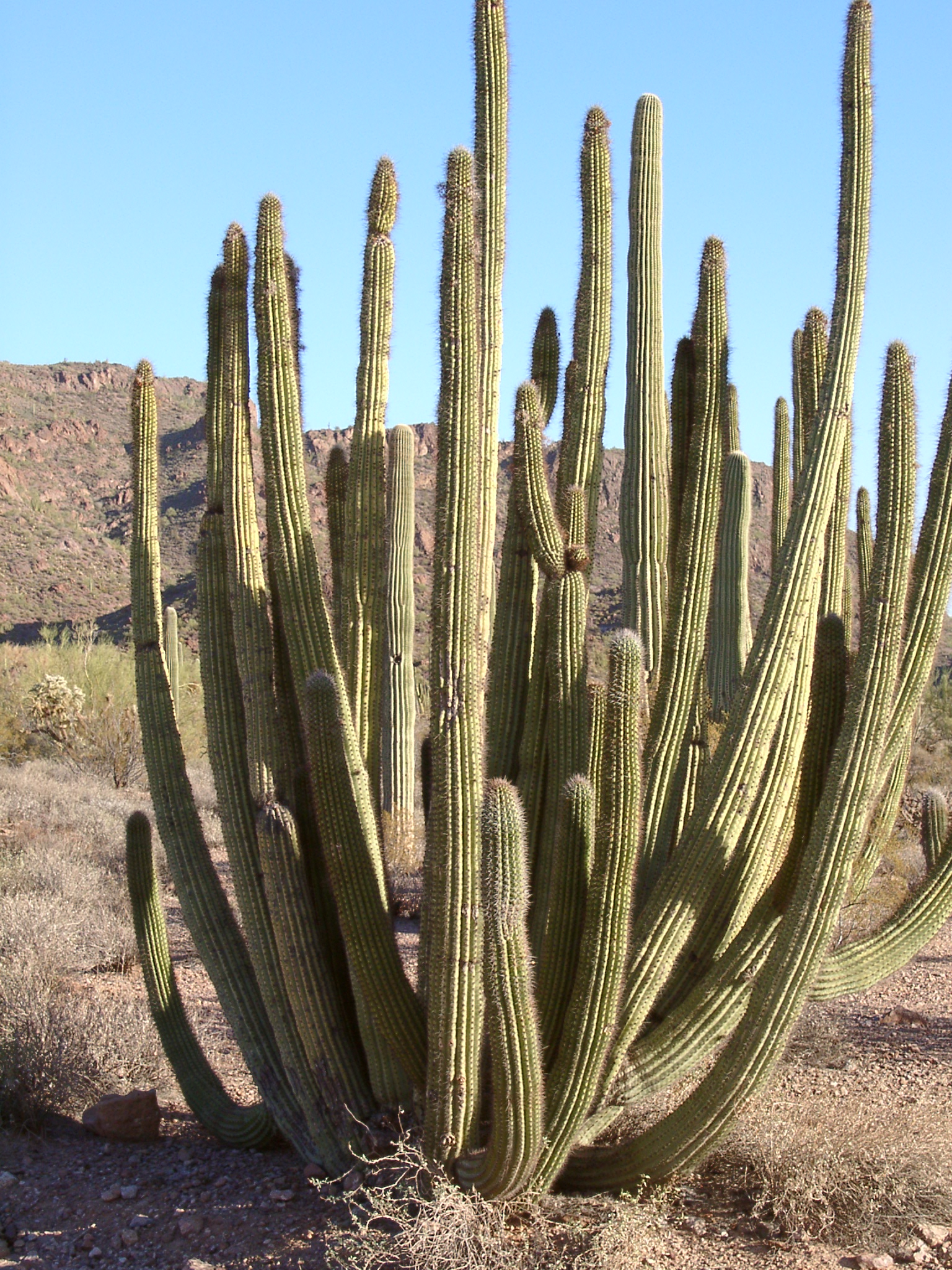 Organ pipe cactus in organ pipe cactus national monument. Taken Christmas Day 2000 by Pretzelpaws with a Casio QV-3000EX camera.